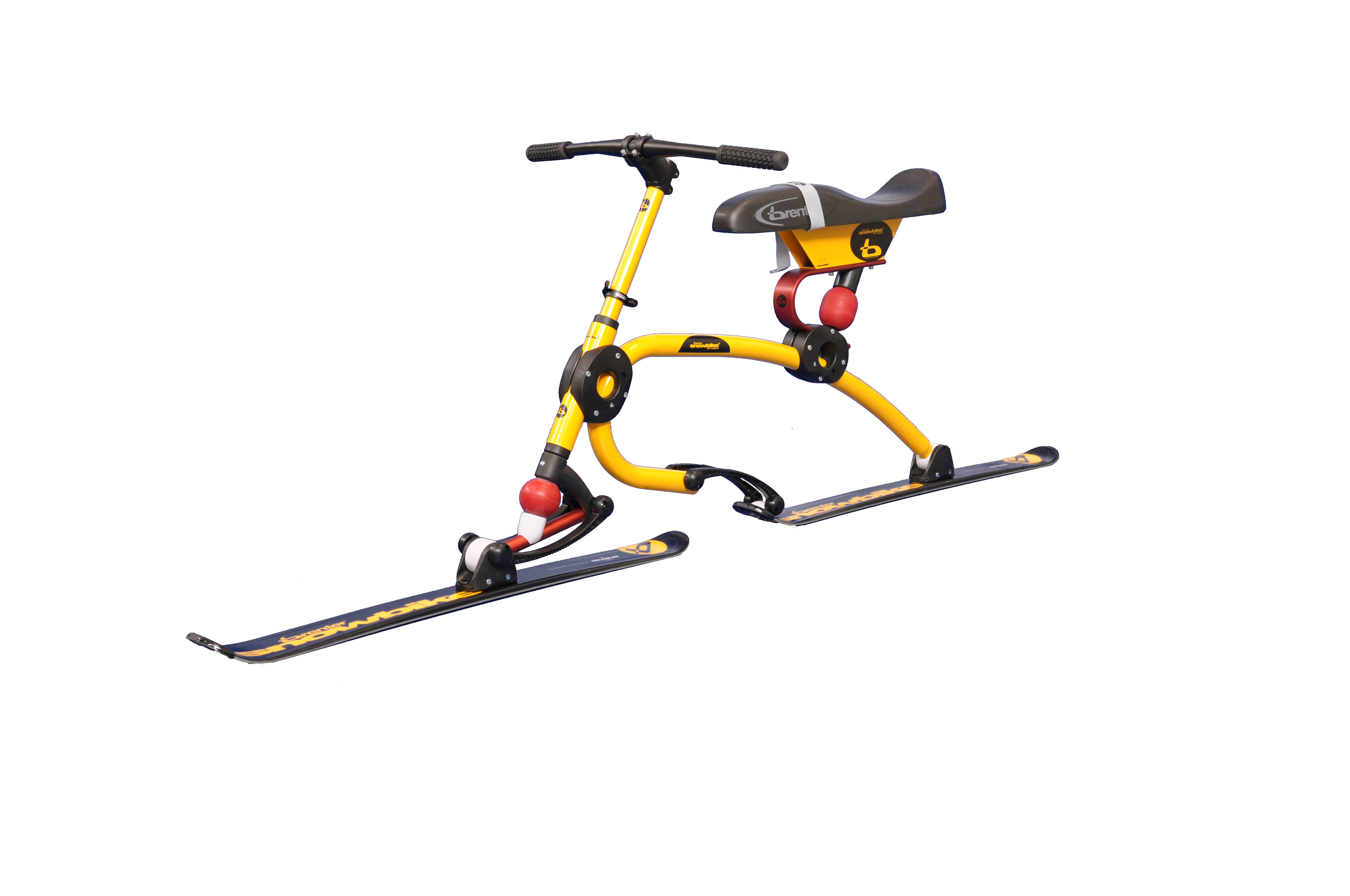 Modern Snowbike C6 only 7 kg leight (Skibob, Skibike, Snowbike)